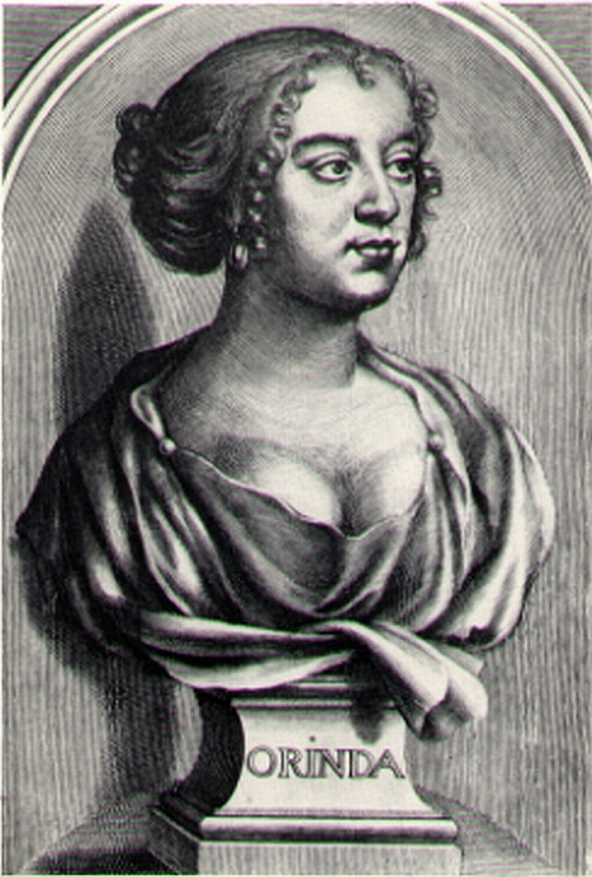 The Matchless Orinda (Katherine Philips 1632 - 1664). Welsh poet.